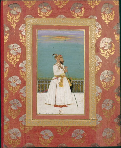 Miniature of Grand Vezier, Nawab Qamar-ud-din Khan